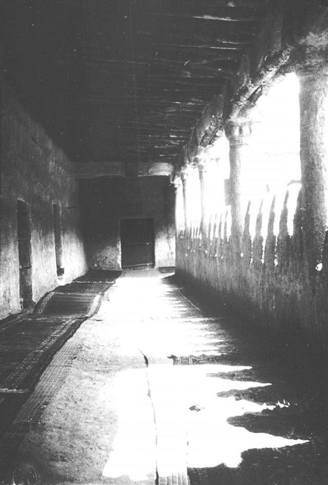 Corridor with rugs off courtyard of Barzan Palace, 1914, taken by Gertrude Bell (1868 – 1926)